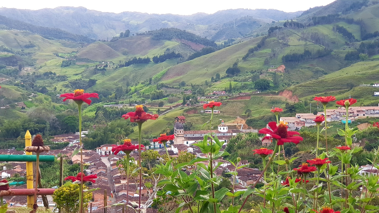 View of Concepcion